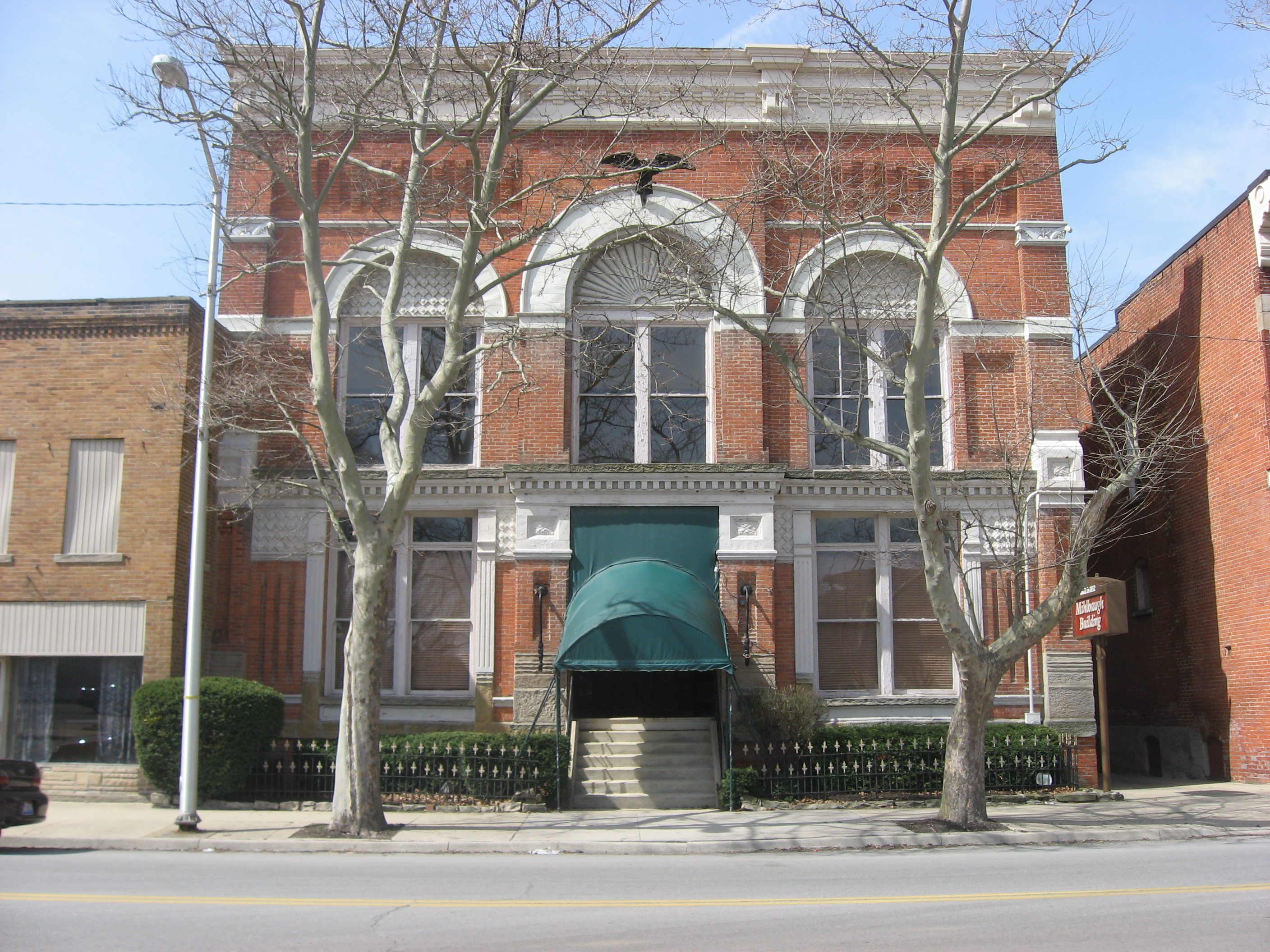 Front of the Armory-Latisona Building, located at 440 S. Main Street in Lima, Ohio, United States. Built in 1896 as an armory and since converted to law offices, it is listed on the National Register of Historic Places.